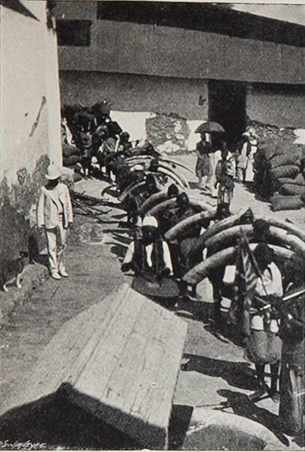 Caravan of ivory shot by Arthur H. Neumann